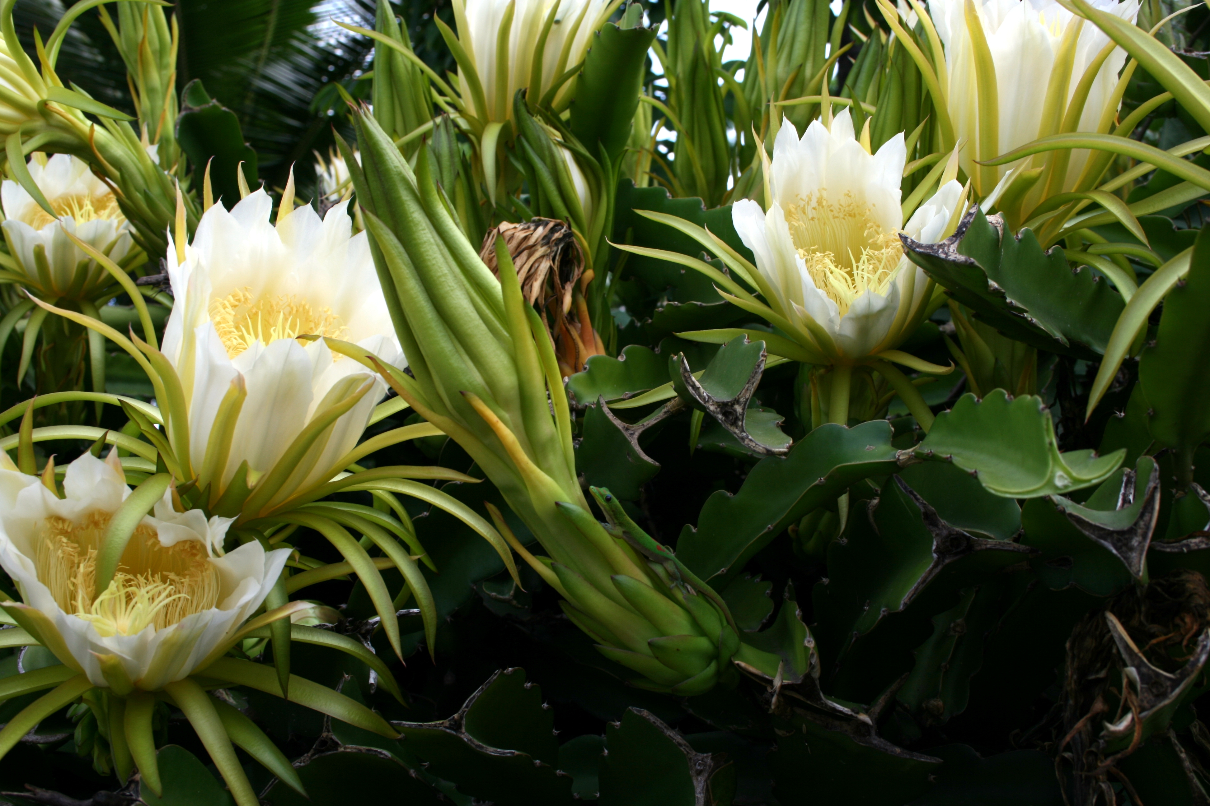 Well camouflaged Gold dust day gecko andNightblooming cereus. The image was taken in Kona,the Big Island of Hawaii.